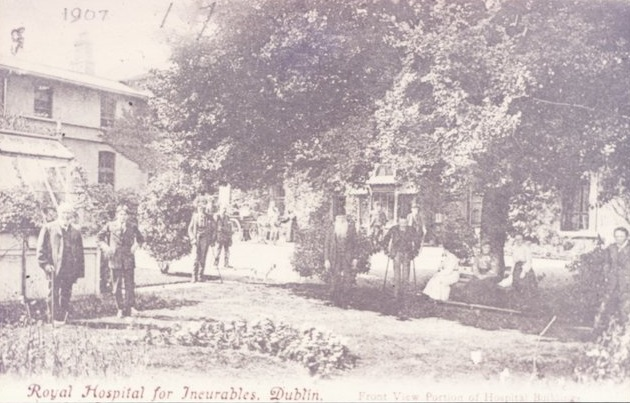 Old postcard of the Royal Hospital for Incurables, Donnybrook